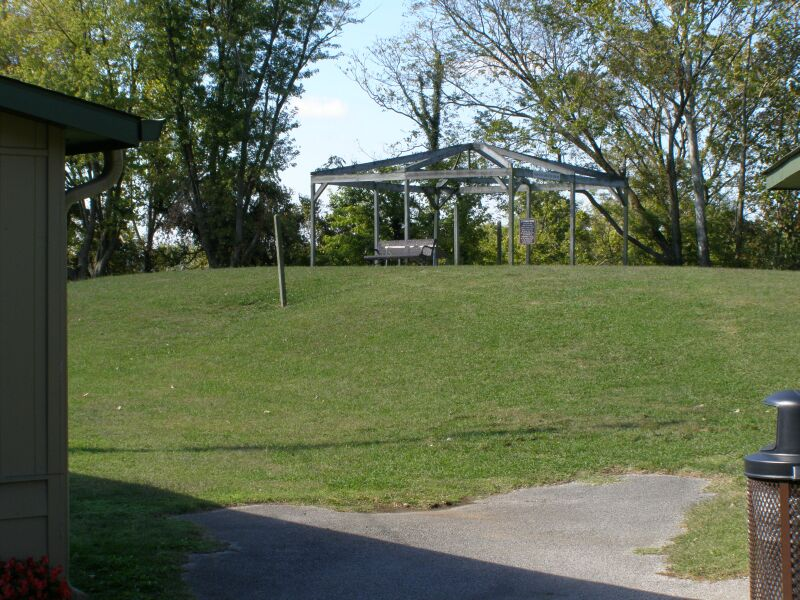 Ceremonial Mound with 'reconstructed' building.